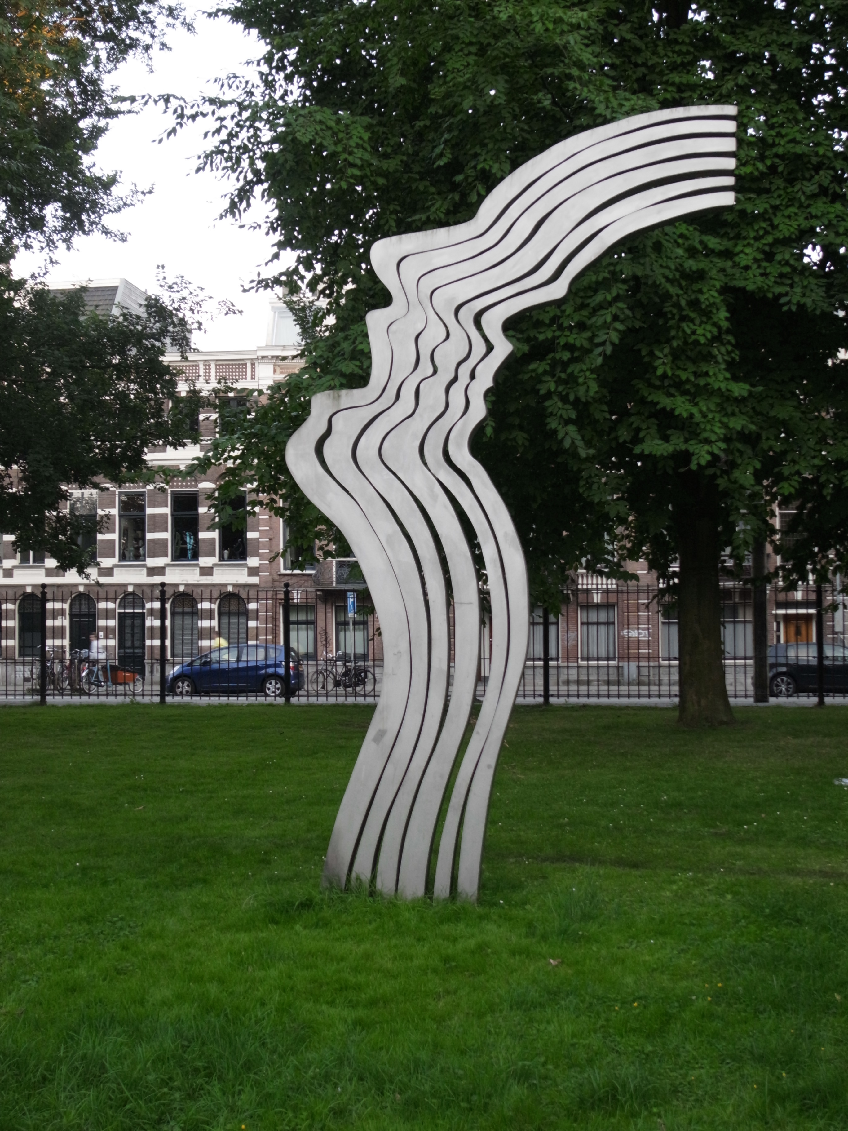 Memorial/sculpture by Dutch sculptor Jeroen Henneman